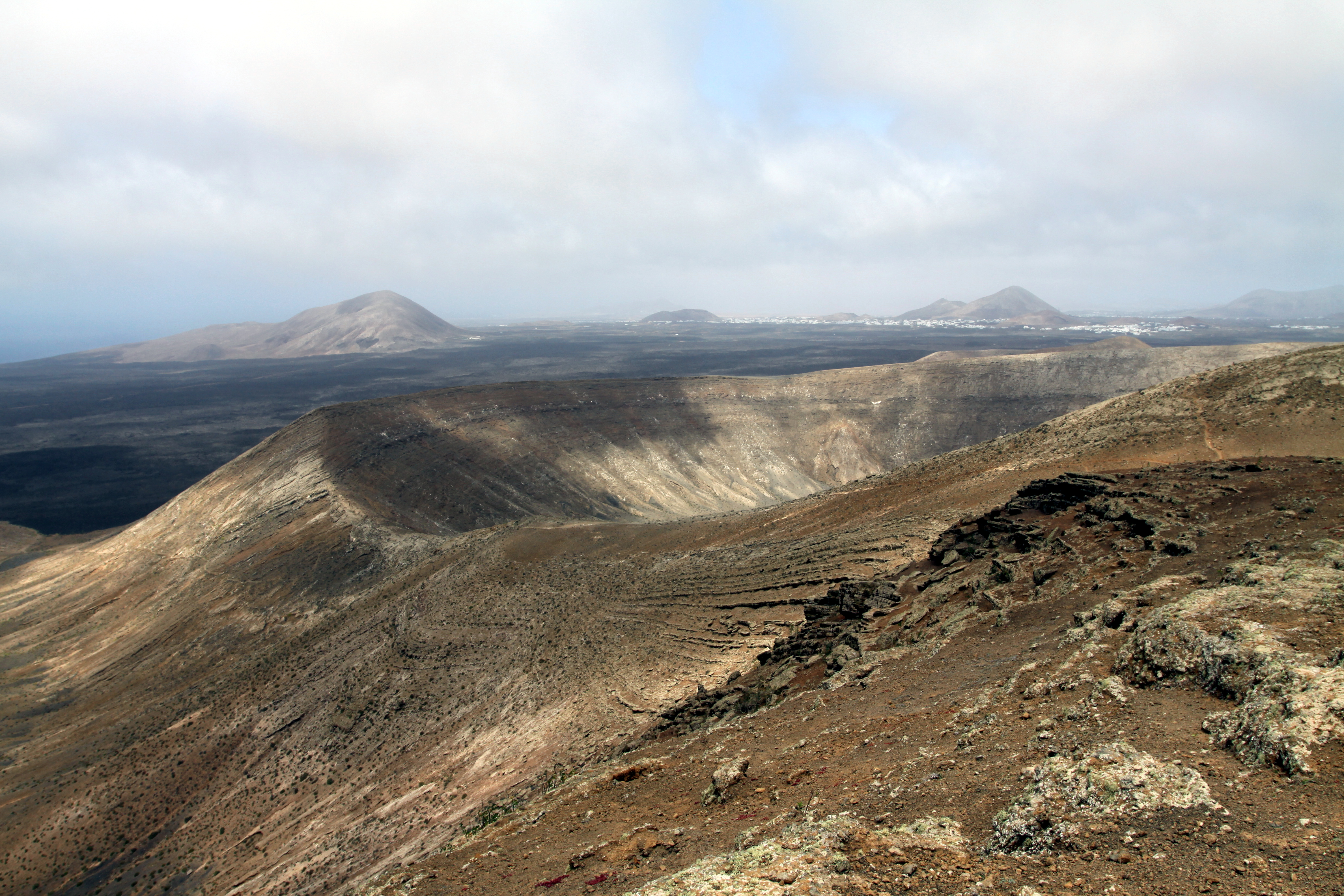 Tuff ring Caldera Blanca on Lanzarote, the Canary Islands, Spain - OpenStreetMap(Info)